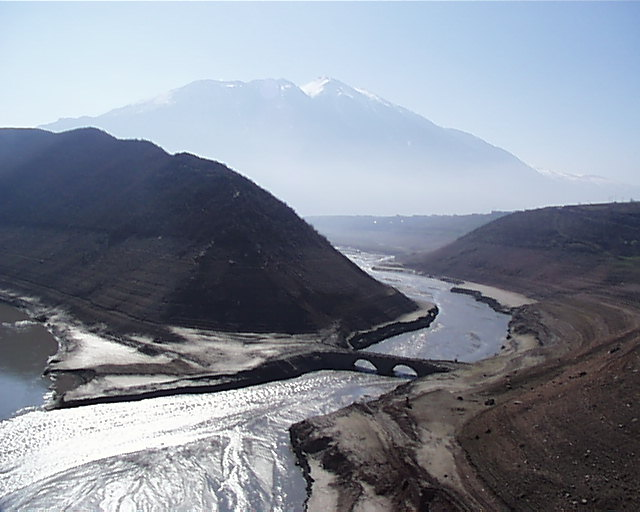 Old Kukes Bridge, Depleted Fierze Reservoir, Mt Gjallica